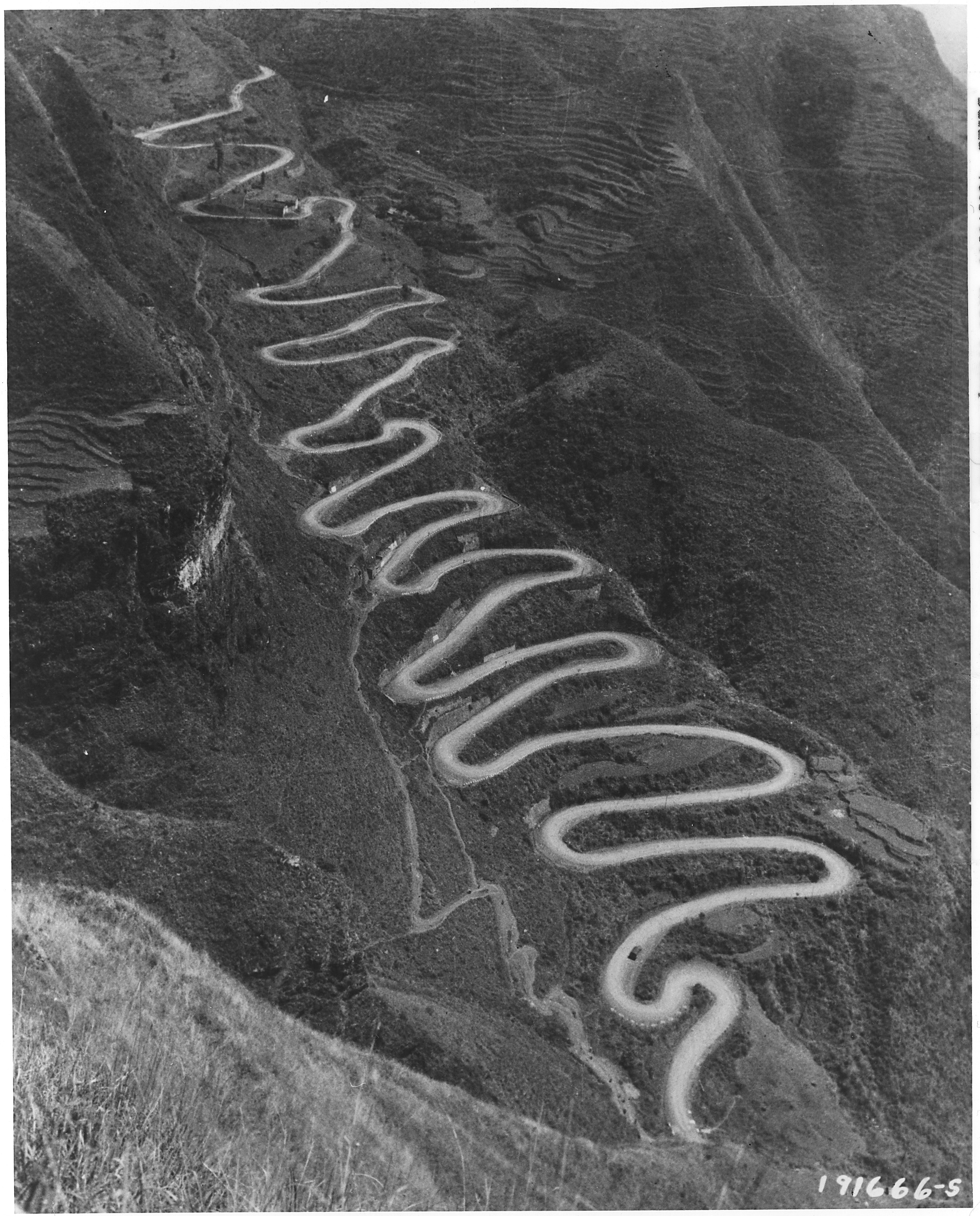 Scope and content: Individual Burma Roads.